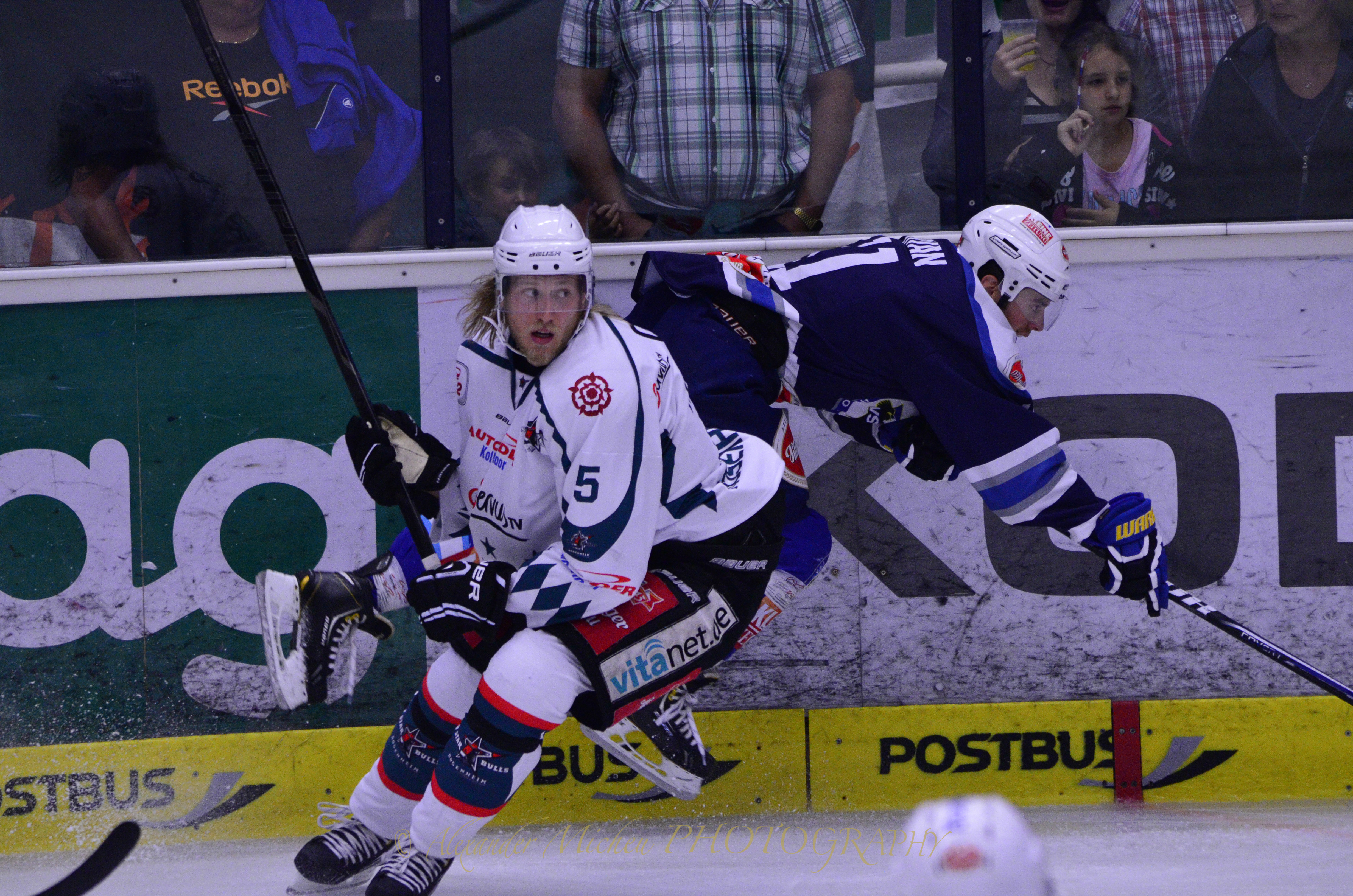 Hockey back in town